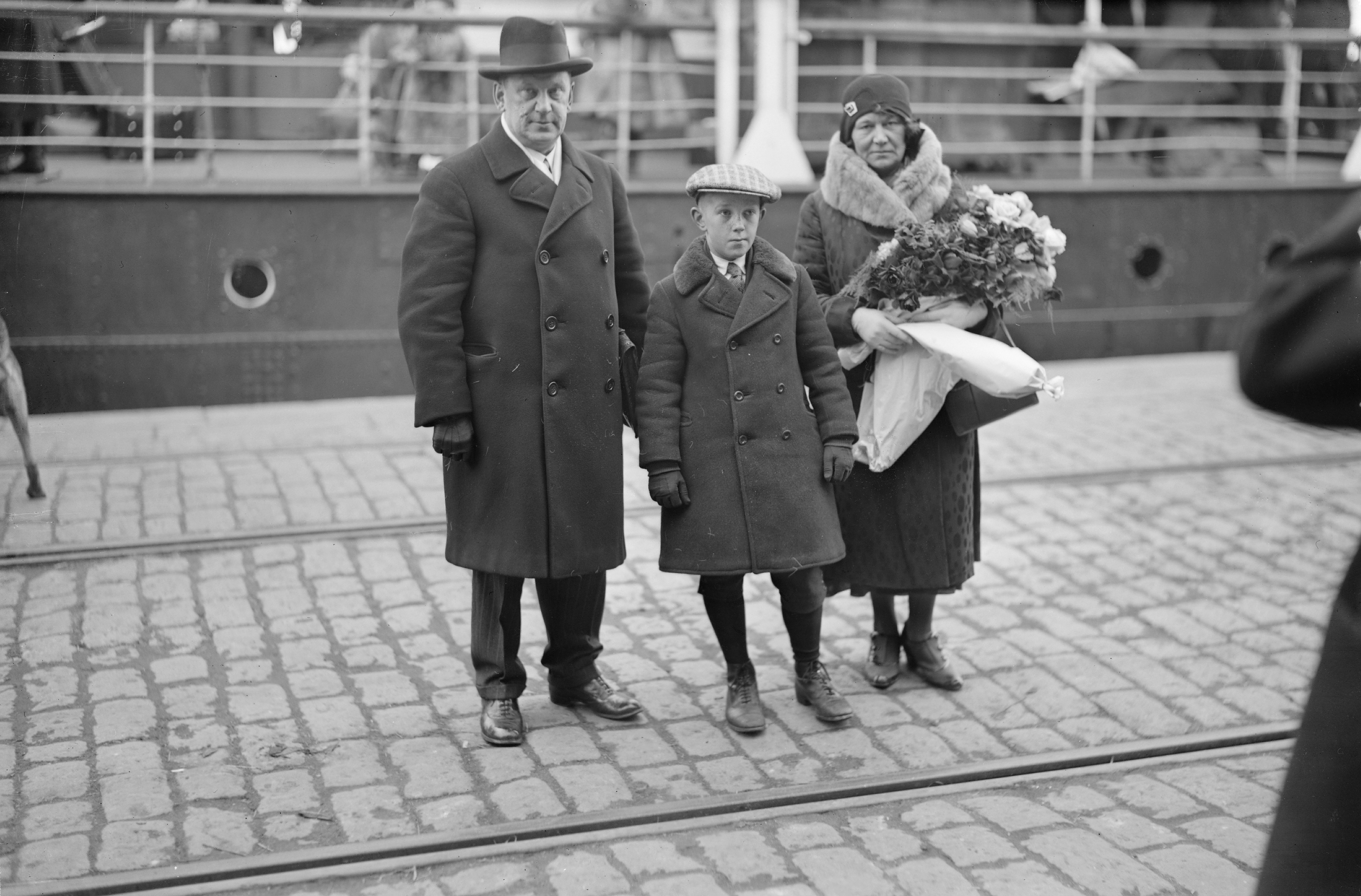 Estonian Ambassador to Finland, Mr. Hans Rebane, with his family at South Harbour of Helsinki, April 18, 1934